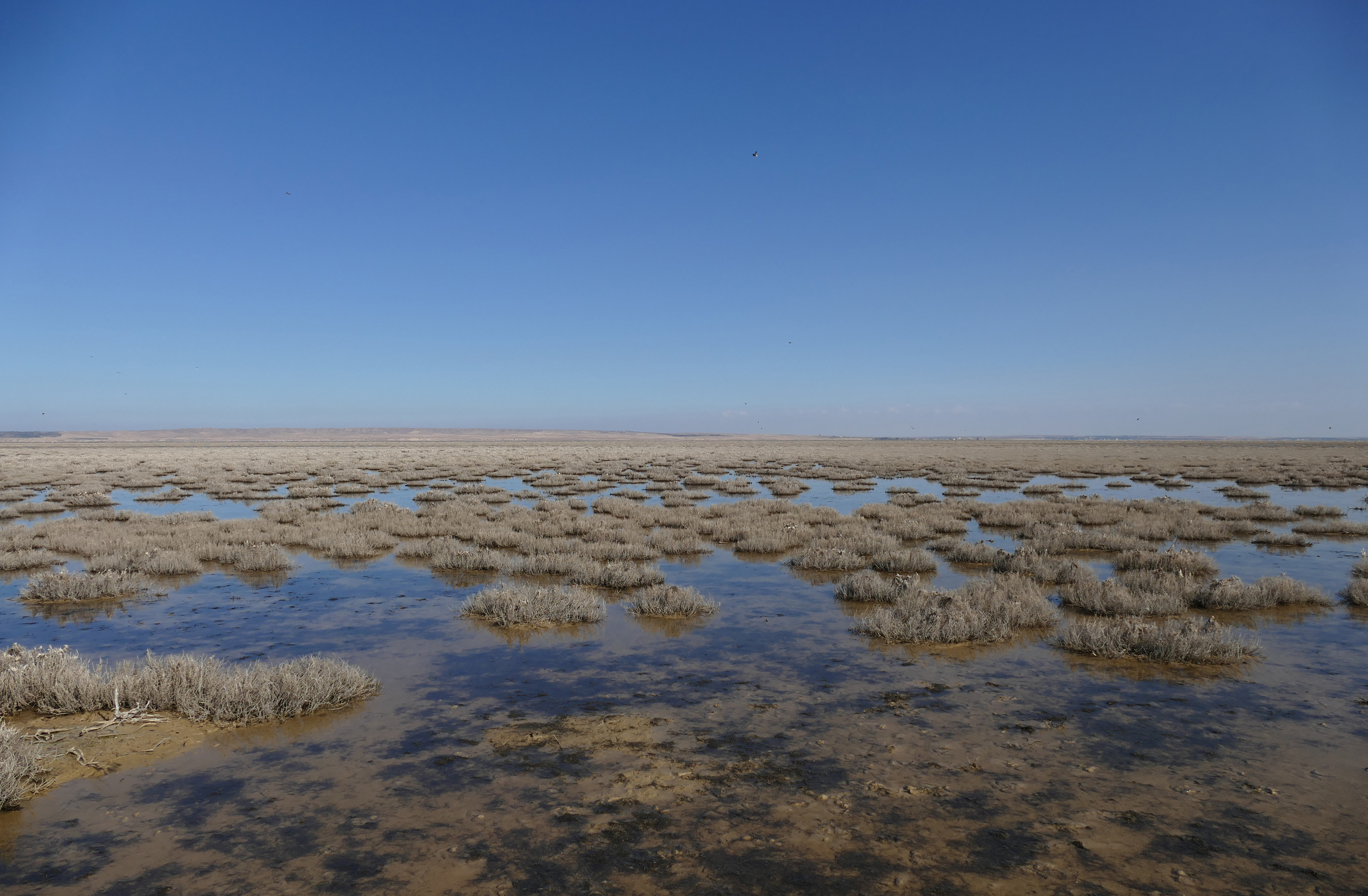 Sebkha Kelbia, Ramsar site in Central Tunisia